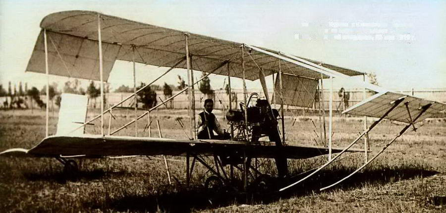 The Kudashyev 1. Designed by Aleksandr Sergeyevich Kudashyev, this aircraft made its maiden flight on 23 March 1910.